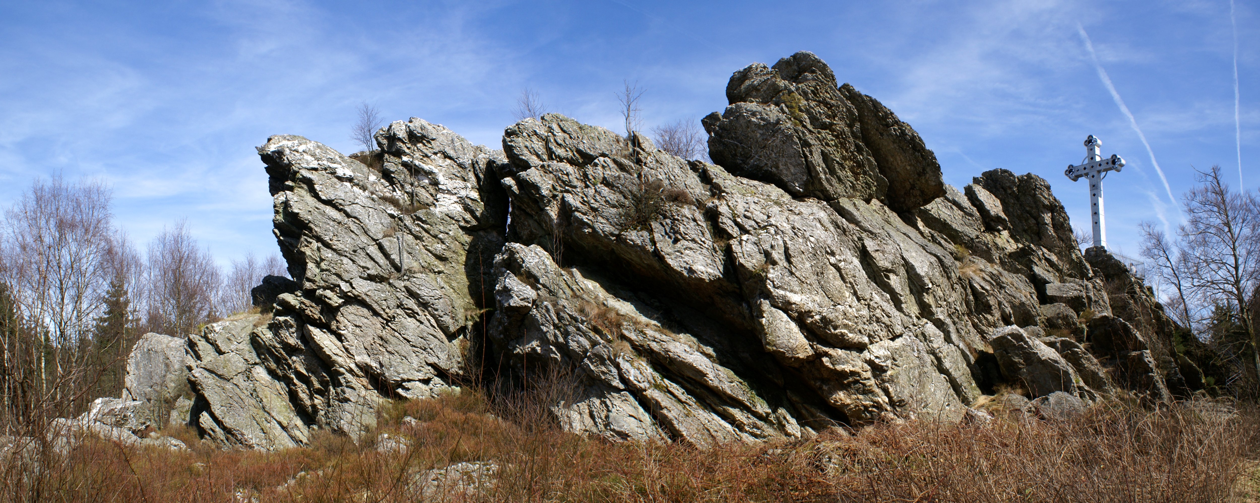 The Richelsley Rock (also known as Richwinsley Rock or “Kreuz im Venn”/“Roche à la Croix”, meaning “Cross in the (High) Fens”/“Rock of the cross”) a narrow, 12 m high and 80 m long erosional ridge of steeply tilted beds of lowest Devonian (Gendinnian/Lochkovian) conglomerate,[1] located in the Belgian part of the northwestern Eifel Mts. or at the eastern flank of the High Fens plateau, respectively. View is from southwest.